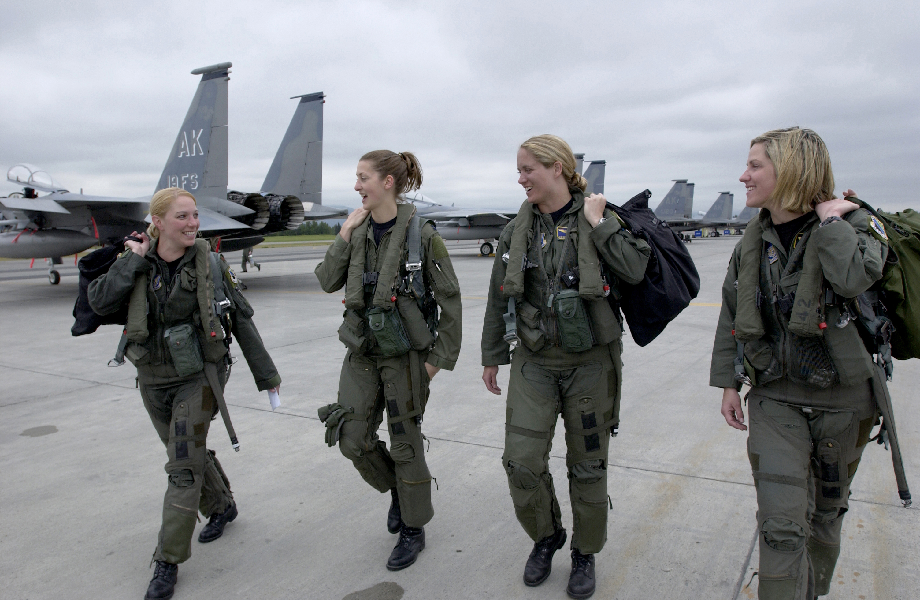 Four F-15 Eagle pilots from the 3rd Wing walk to their respective jets at Elmendorf Air Force Base, Alaska, for the fini flight of Maj. Andrea Misener (far left). To her right are Capt. Jammie Jamieson, Maj. Carey Jones and Capt. Samantha Weeks.